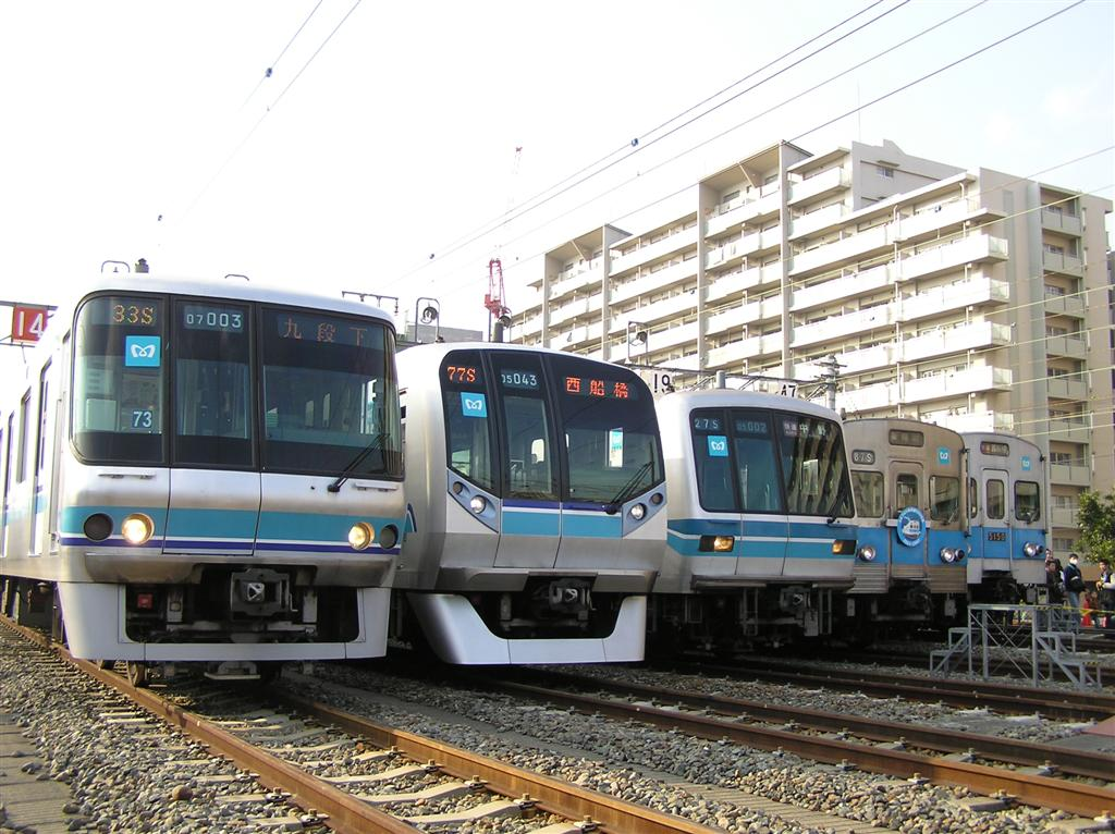 Tokyo Metro 07 series, 05 series, and 5000 series trains at Fukakawa Depot in Tokyo